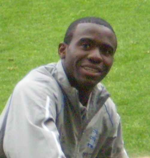 Fabrice Muamba, then on loan to Birmingham City F.C. from Arsenal, acknowledges the supporters after the last game of the 2006–07 Championship season away against Preston North End